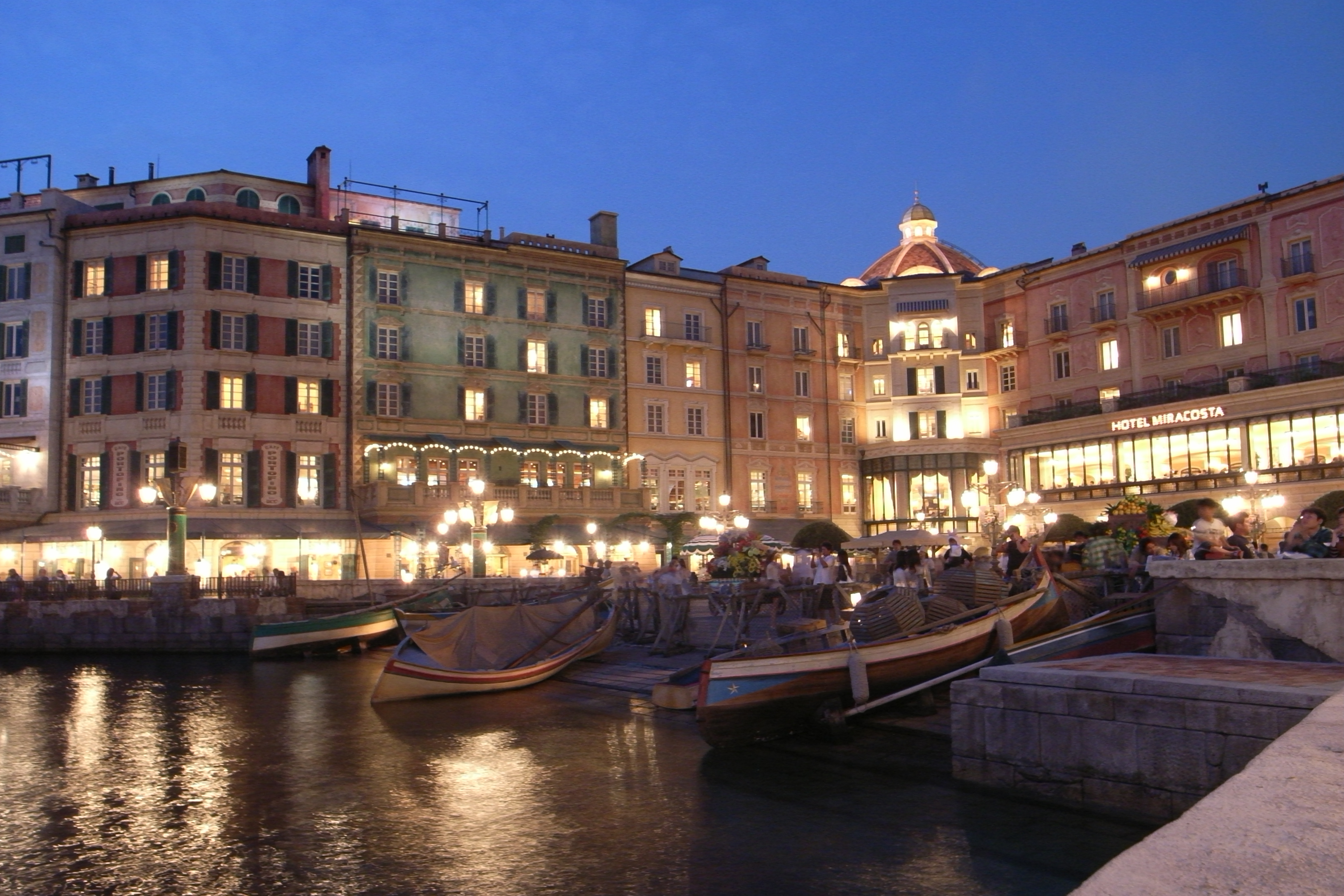 Photo of Tokyo DisneySea Hotel MiraCosta from inside the park at night from the Porto Paradiso side September 2006. From Flickr user w00kie - with Creative Commons Attribution 2.0 Generic license.